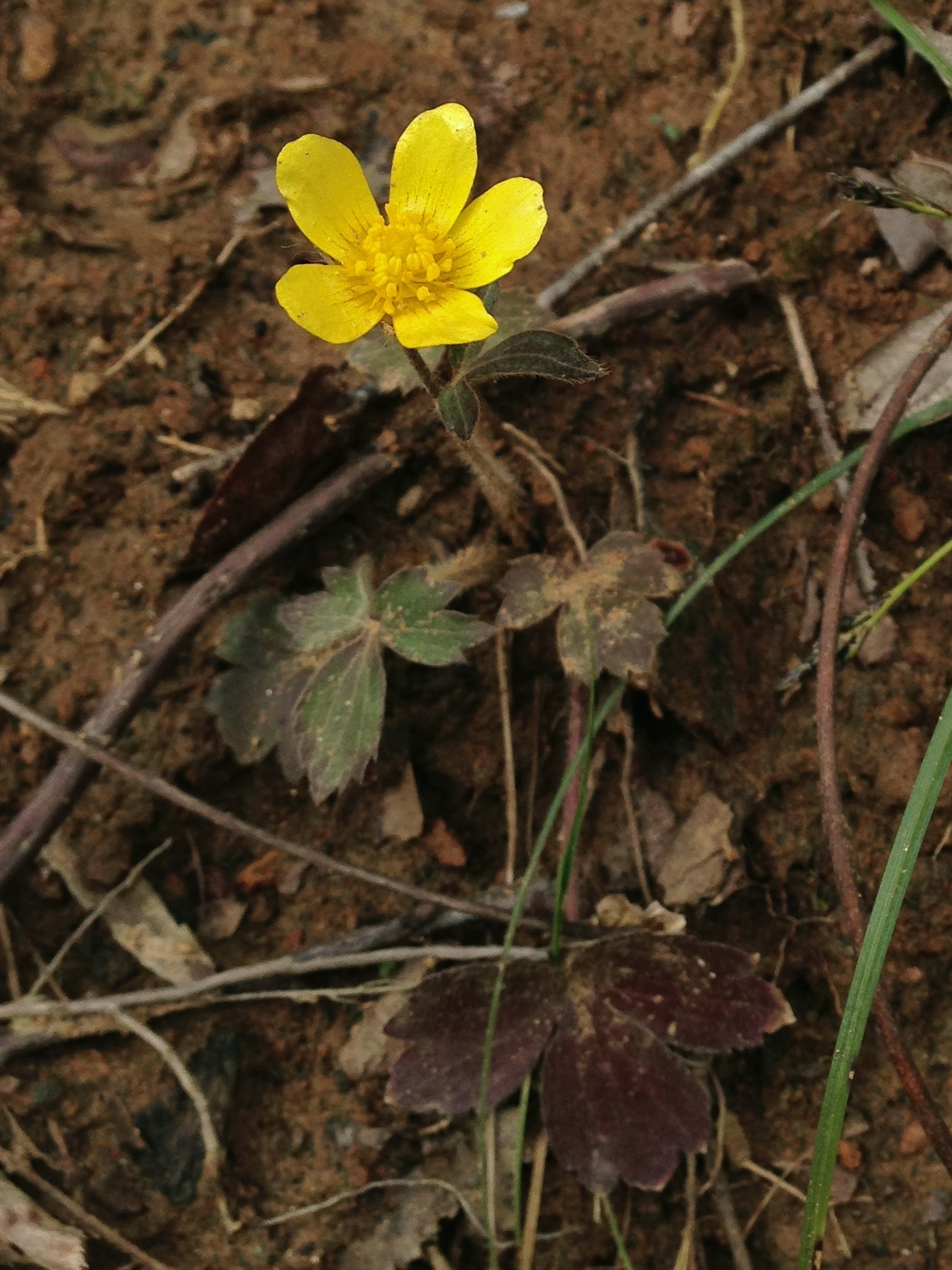 Photo of Ranunculus hispidus in flower. This is a native plant growing wild in Great Falls Park, Fairfax county Virginia, USA. This species is a member of the Ranunculaceae family.